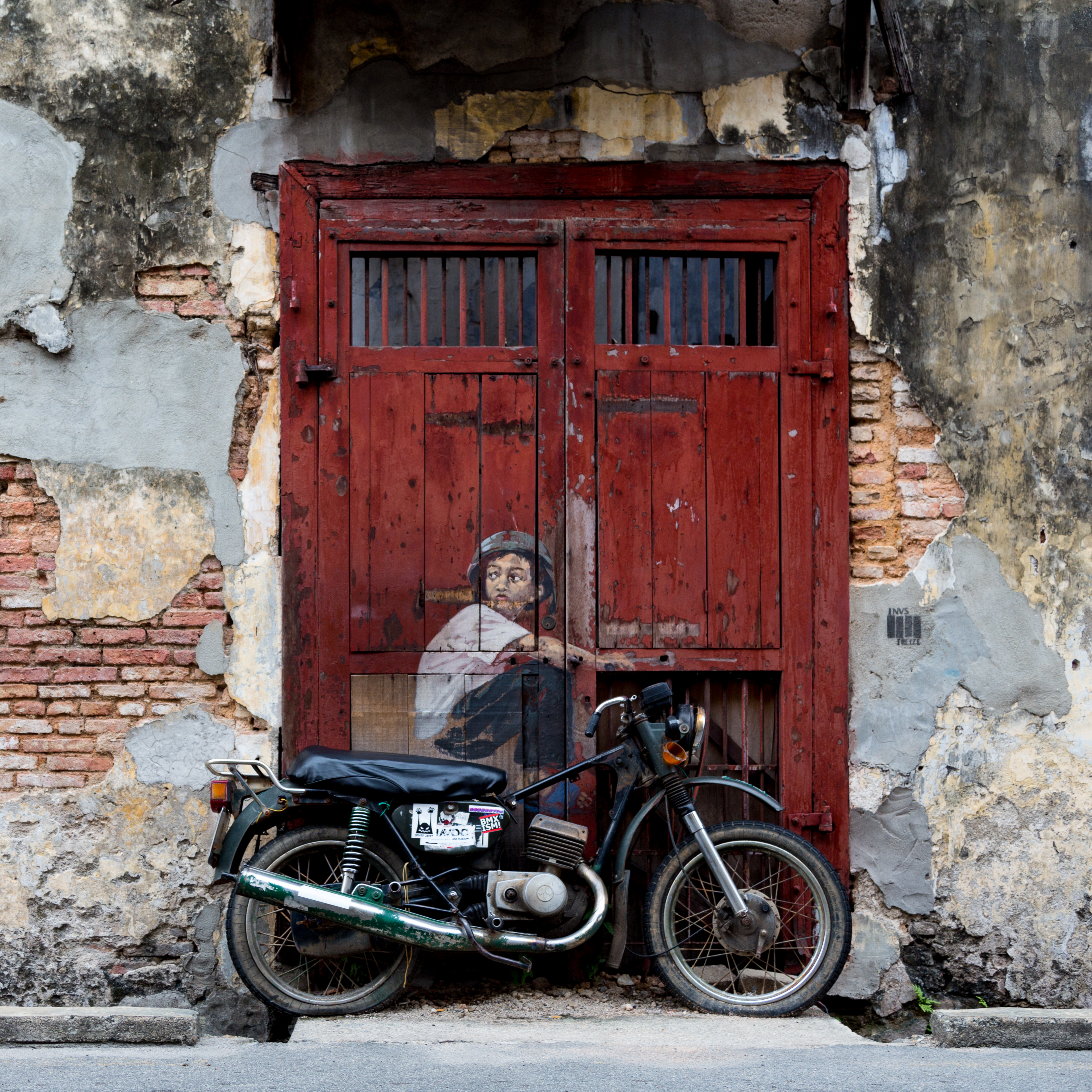 Penang, Malaysia: Street art in Lebuh Ah Quee.